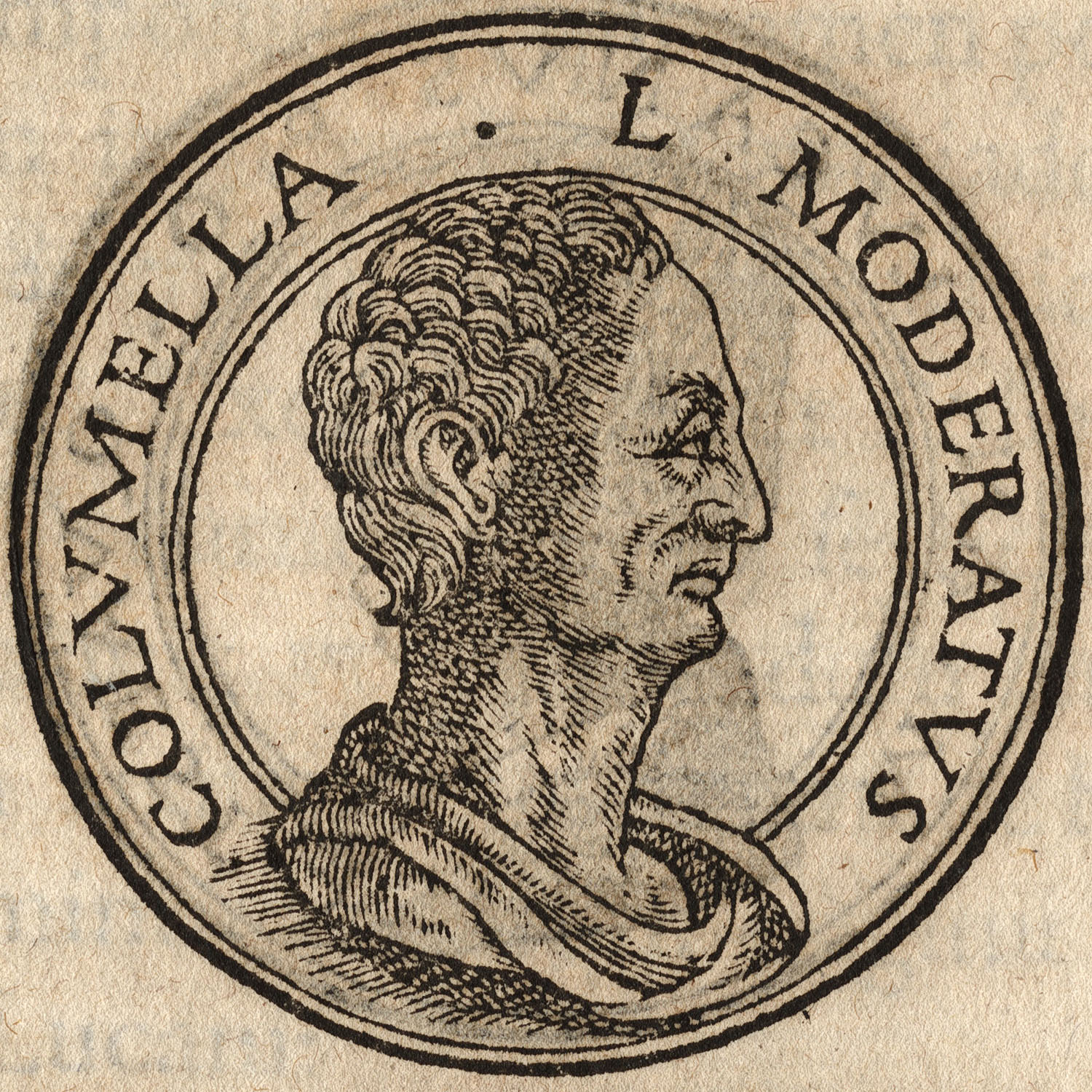 Portrait of Lucius Junius Moderatus Columella from Jean de Tournes, Insignium aliquot virorum icones. Lugduni: Apud Ioan. Tornaesium, 1559